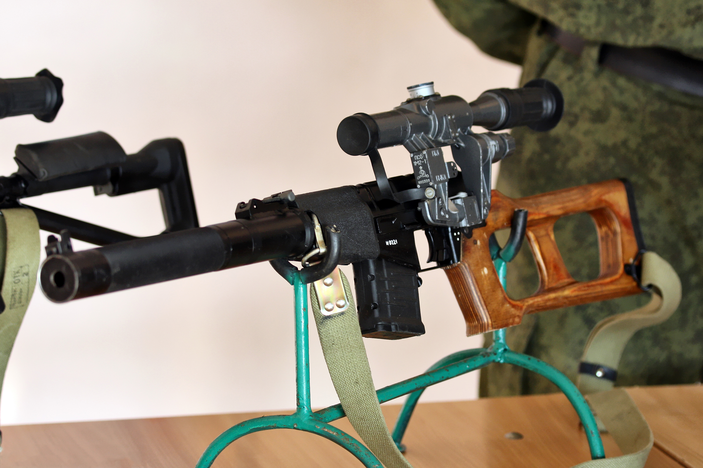 VSS Vintorez of 51st Airborne Regiment 106th Airborne Division